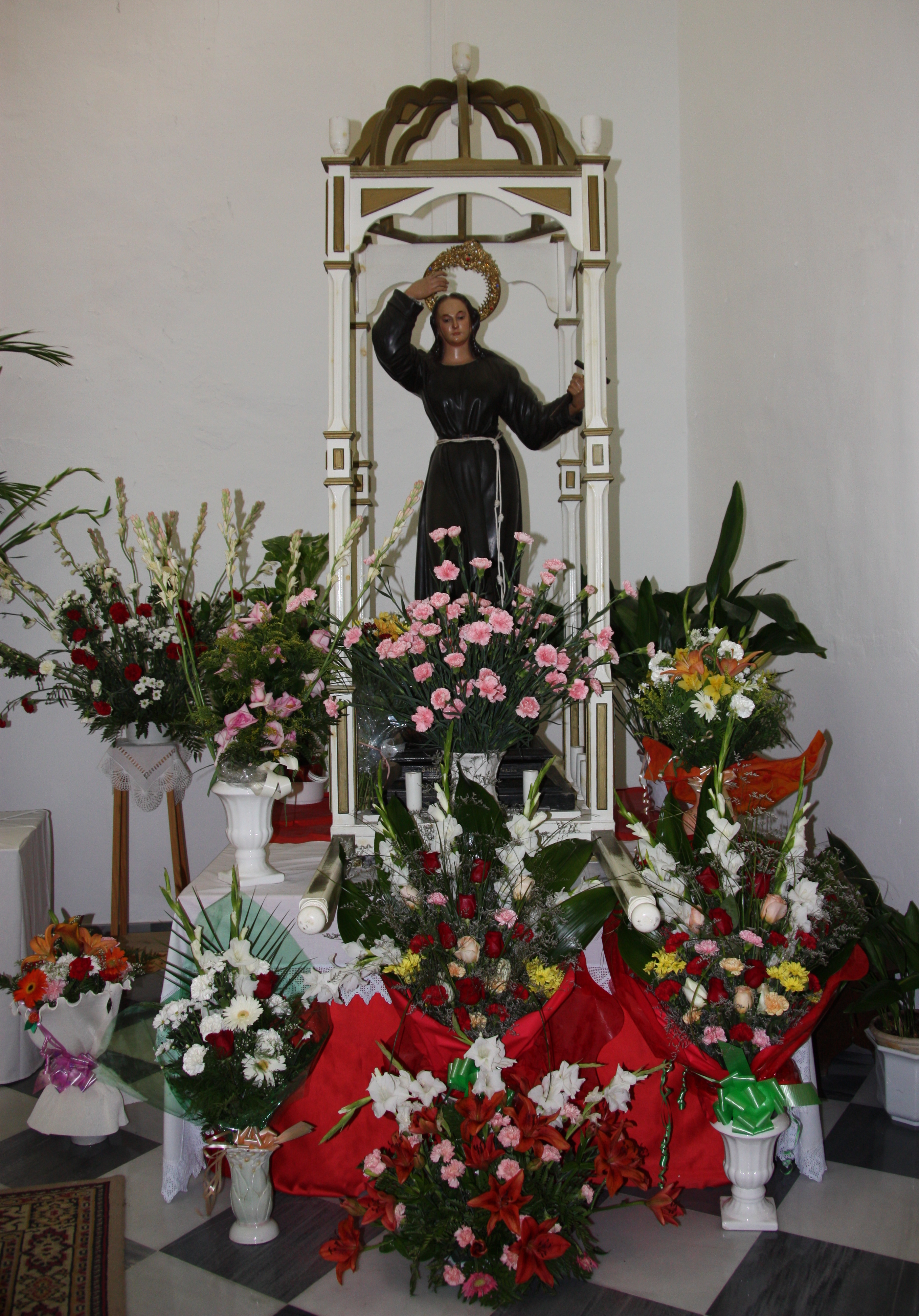 View from the the saint of Alcolea to Almeria